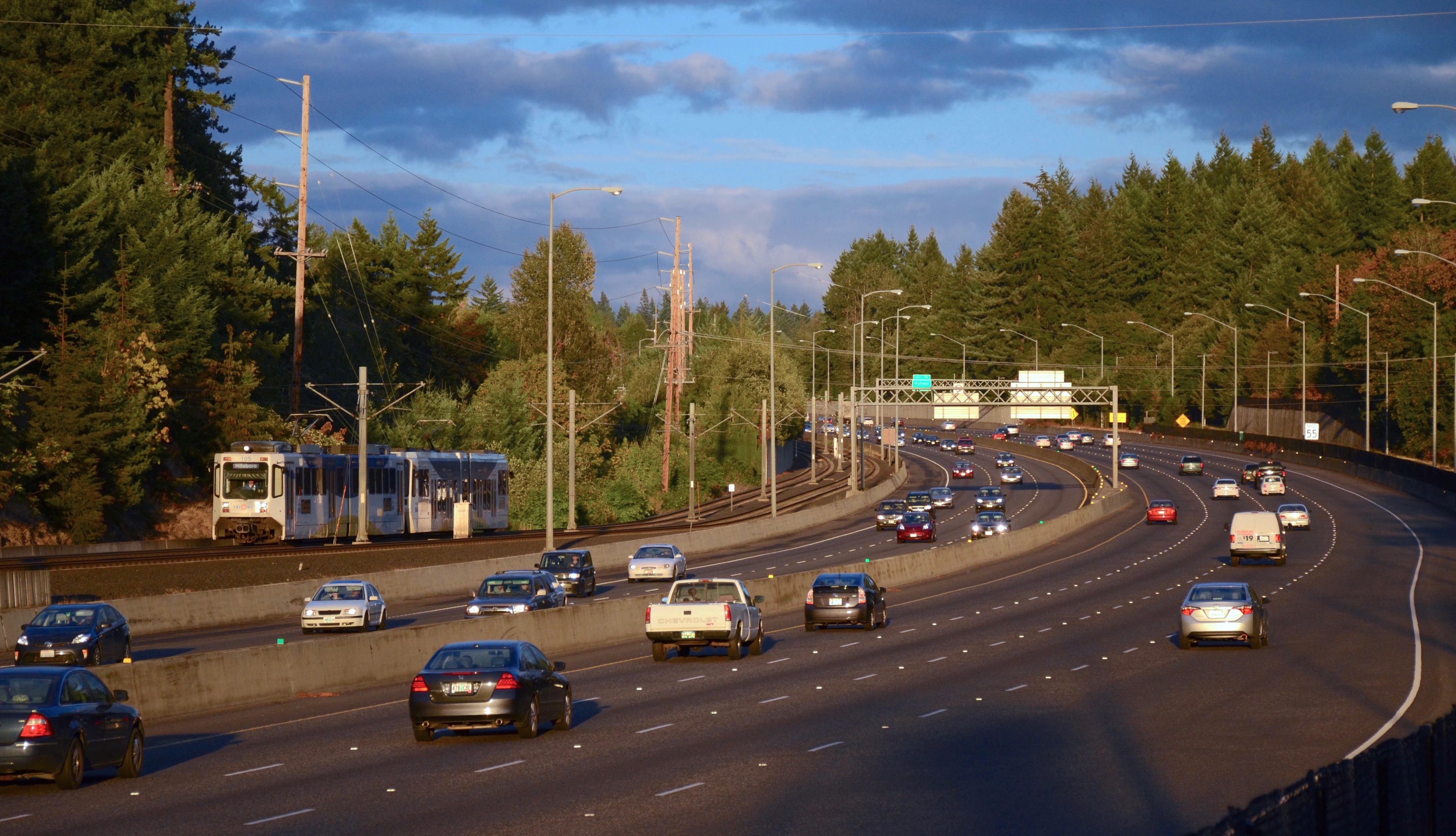 Looking east on the Sunset Highway (U.S. Route 26) in the Portland metropolitan area, where it is a freeway, from about one-half mile east of Oregon Highway 217. This specific location is now within the northeasternmost part of the city of Beaverton (and formerly an unincorporated area). A westbound MAX light rail train is next to the freeway, headed for Hillsboro.